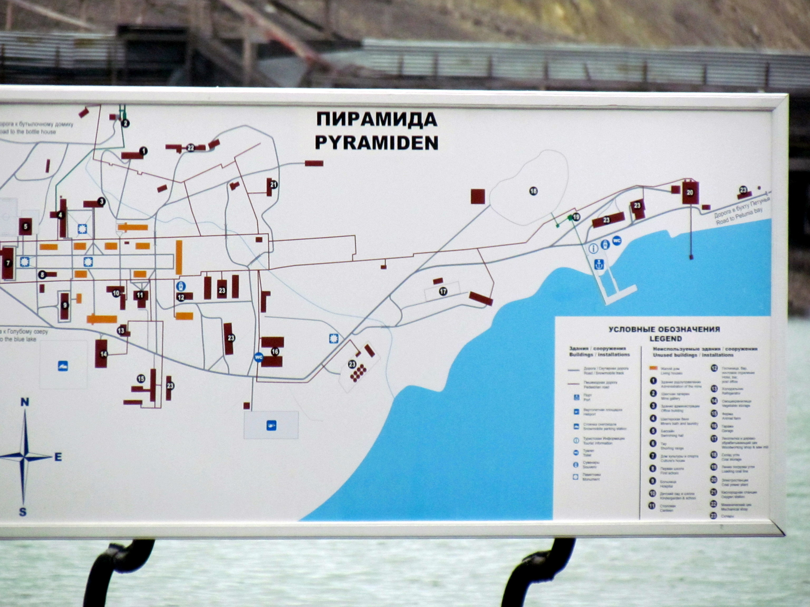 This is a plan of the ghostcity Pyramiden in Spitsbergen.